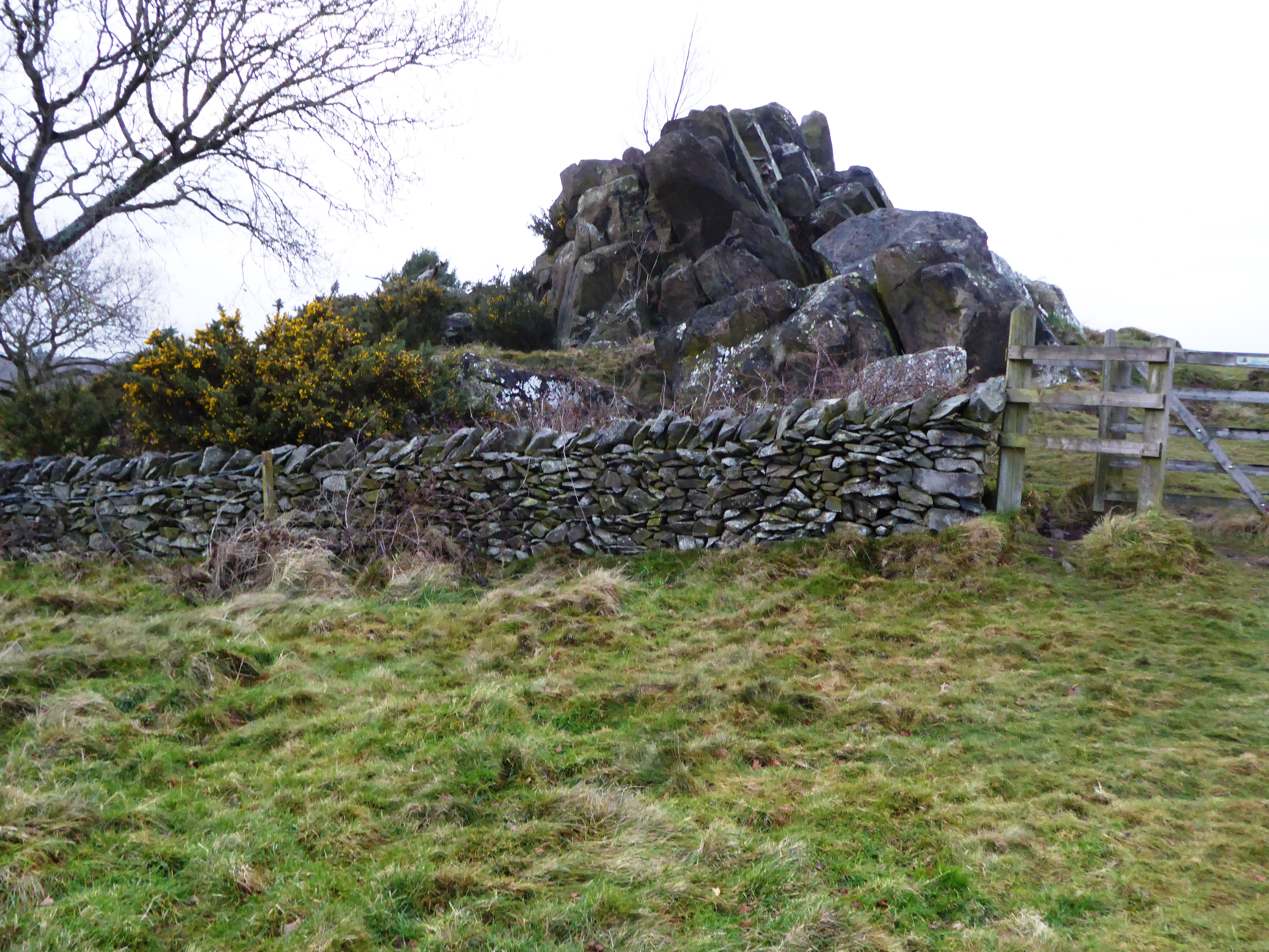 Altar Stones is a nature reserve on the northern outskirts of Markfield in Leicestershire. It is managed by the Leicestershire and Rutland Wildlife Trust.